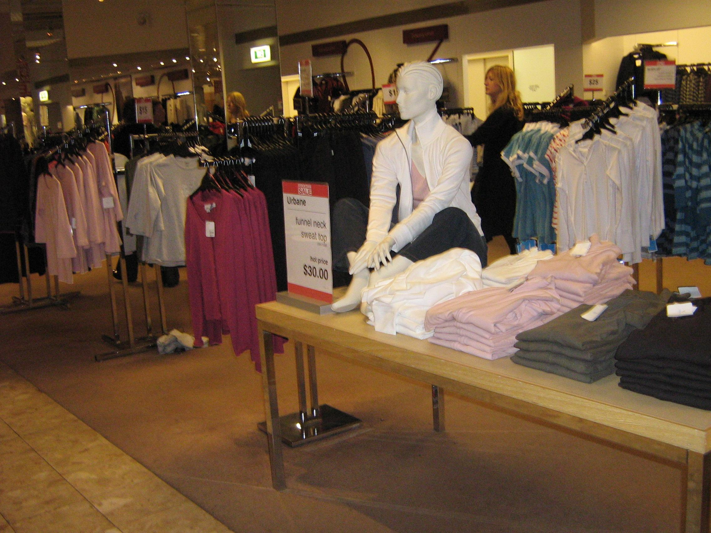 The womanswear department of the Melbourne City flagship store of Myer.